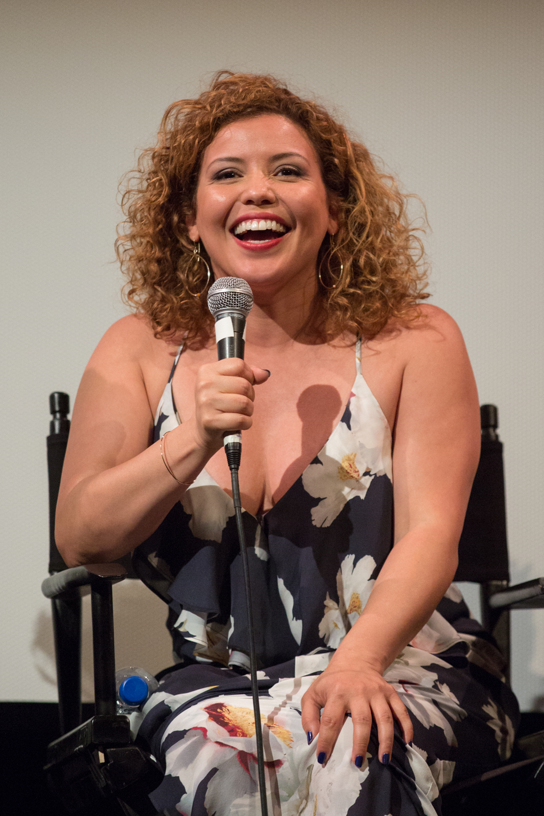 Justina Machado at the ATX Television Festival presentation of the TV show "Queen of the South"